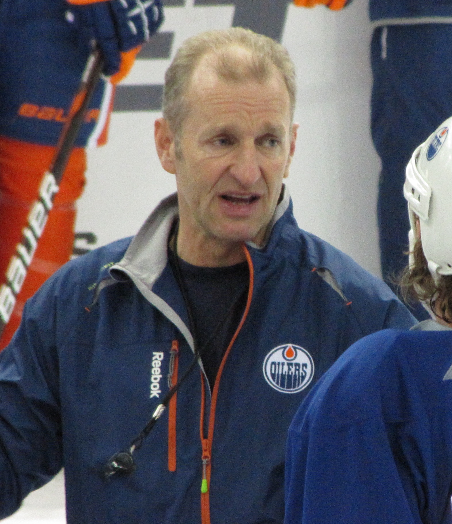 Coach Ralph Kreuger talks with Ryan Smyth and Shawn Horcoff